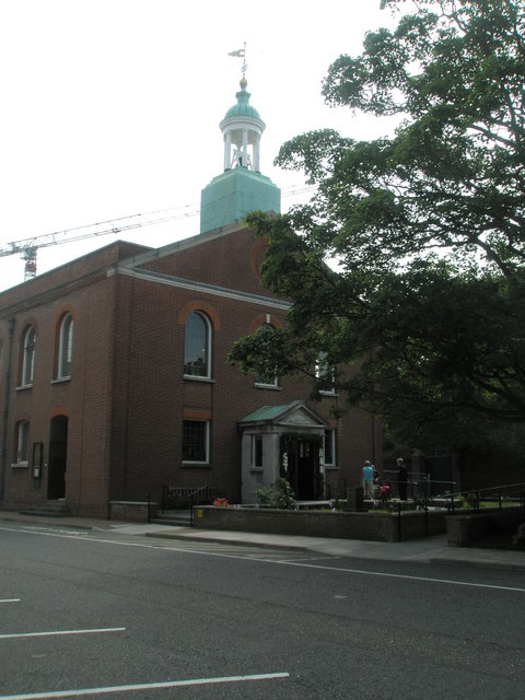 St Ann's Church within Portsmouth Historic Dockyard